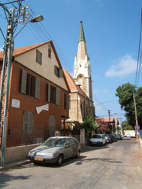 Tel Aviv Yaffo American colouny